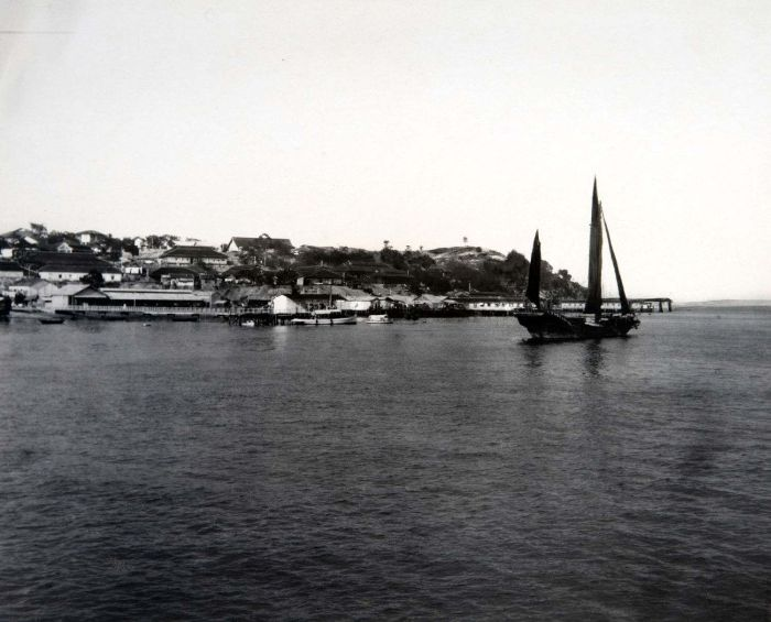 Chinese junk at Pulau Sambu